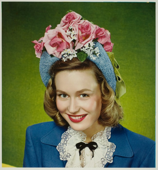 Description =Accession Number: 1974:0238:0086 Maker: Nickolas Muray (American 1892-1965) Title: WHITMAN CHOCOLATES, EASTER HAT Date: 1945 Medium: color print, assembly (Carbro) process Dimensions: unknown George Eastman House Collection General – information about the George Eastman House Photography Collection is available at For information on obtaining reproductions go to